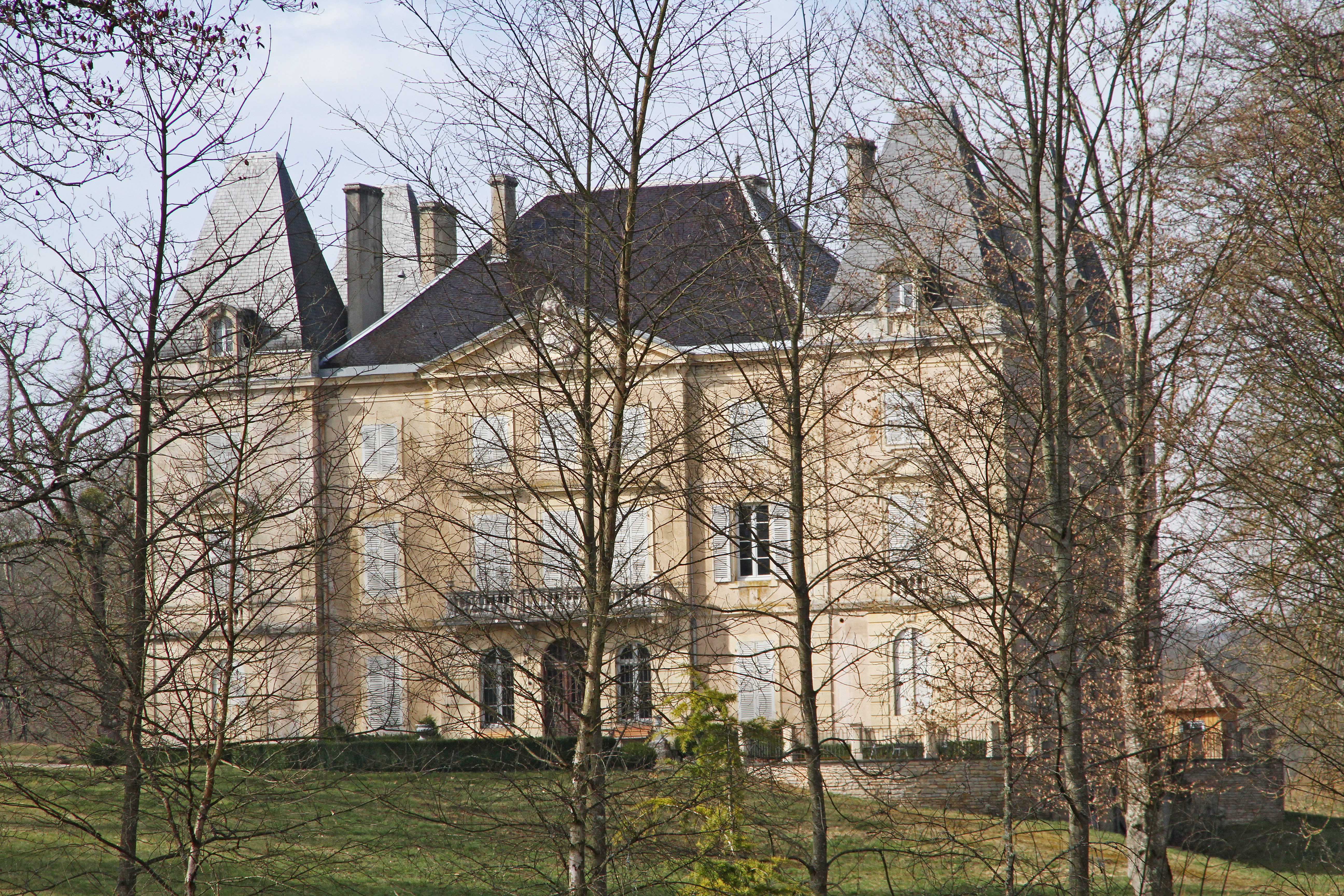 Château de Lamargelle